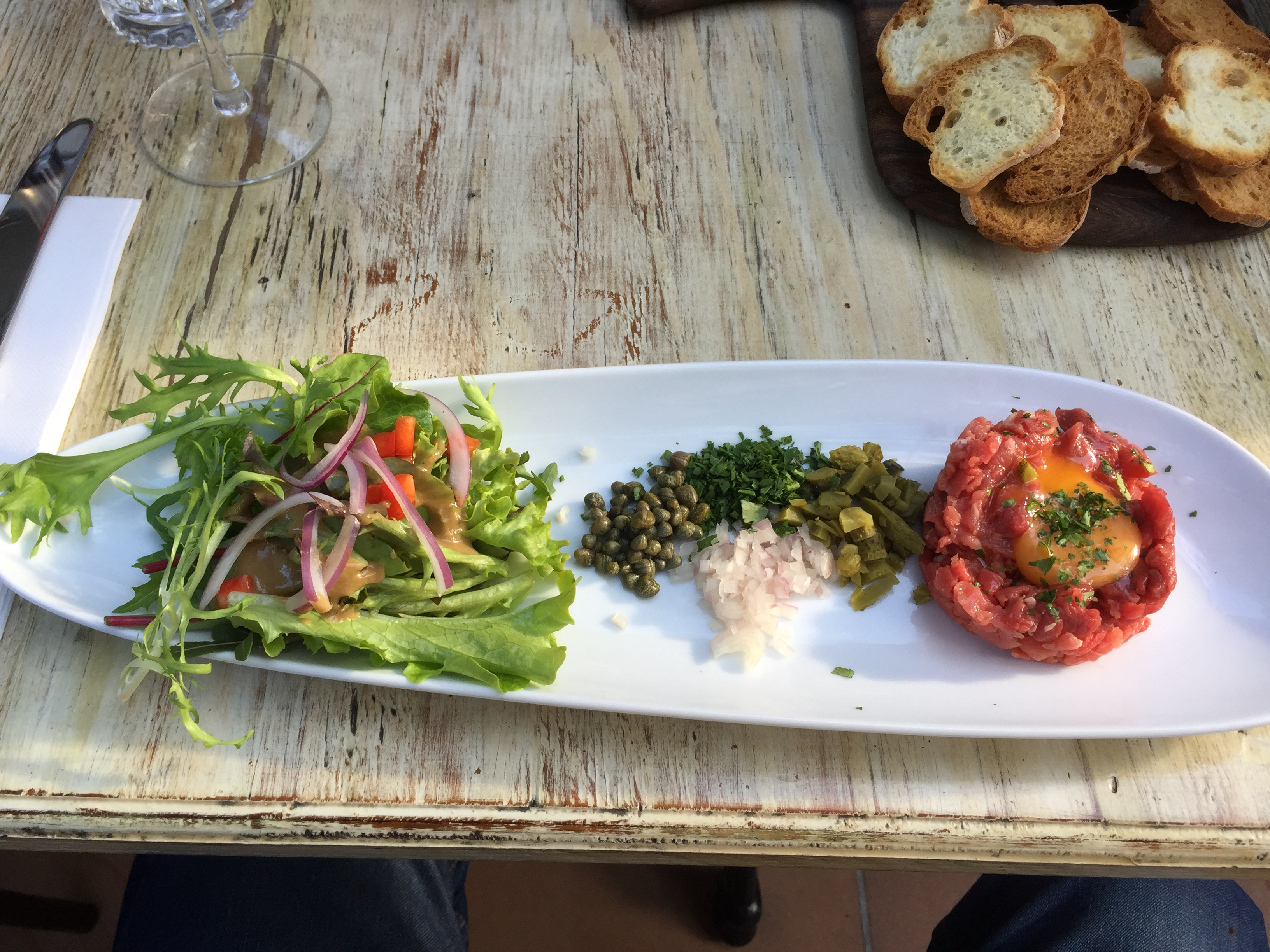 Finely diced raw eye fillet with yellow egg & little piles of chopped gerkin, red onion, parsley & capers served with baguette at French Martini, Brisbane, Australia.